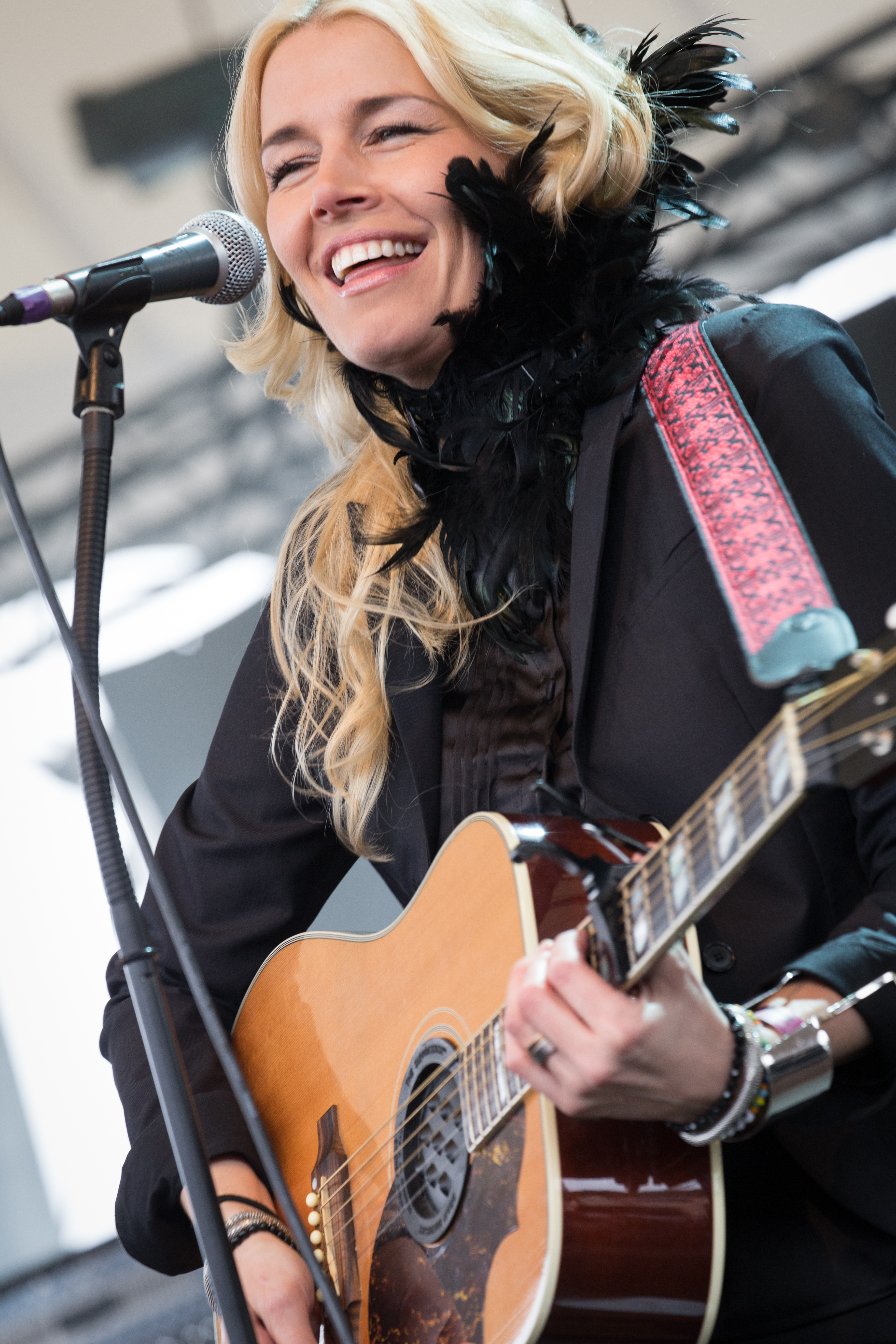 Avatarium performing live at Rock Hard Festival, May 2015, Gelsenkirchen